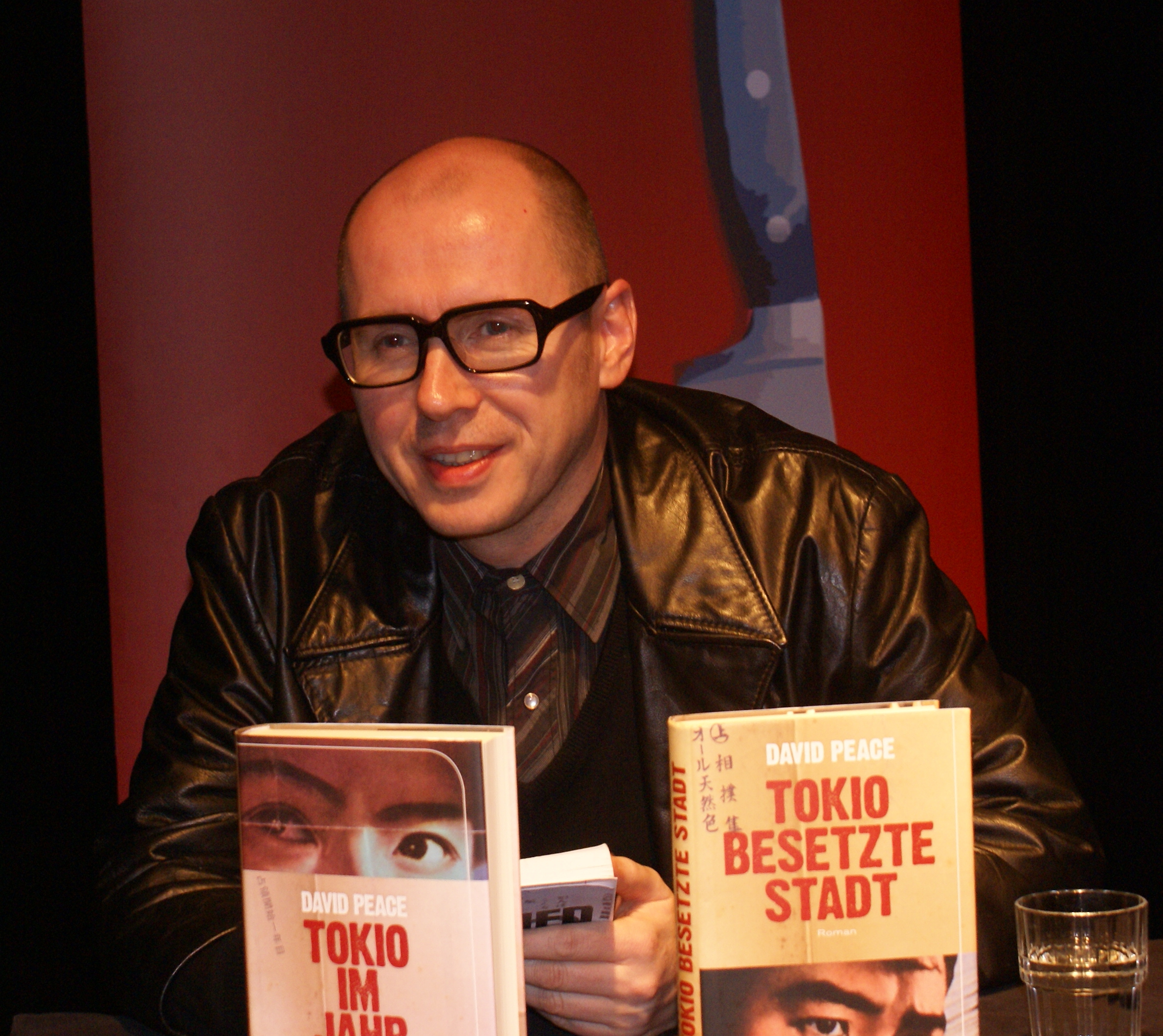 David Peace at a reading in Oelde-Stromberg, Germany, in November 2010